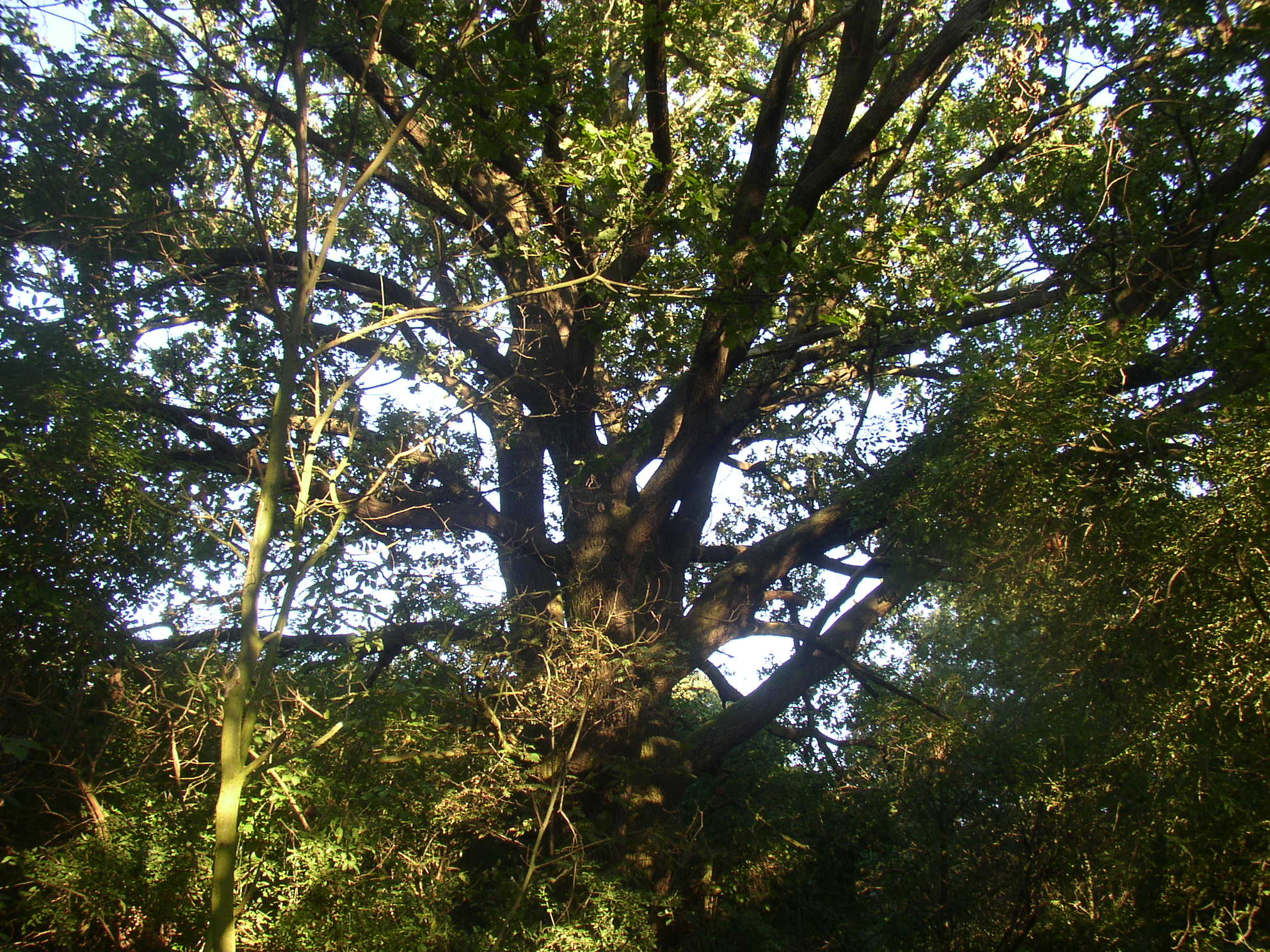 Dub na Zadních Lužích ("Oak in the Rear Meadows") Protected example of Pedunculate Oak (Quercus robur) east of town of Slaný, Kladno District, Czech Republic.